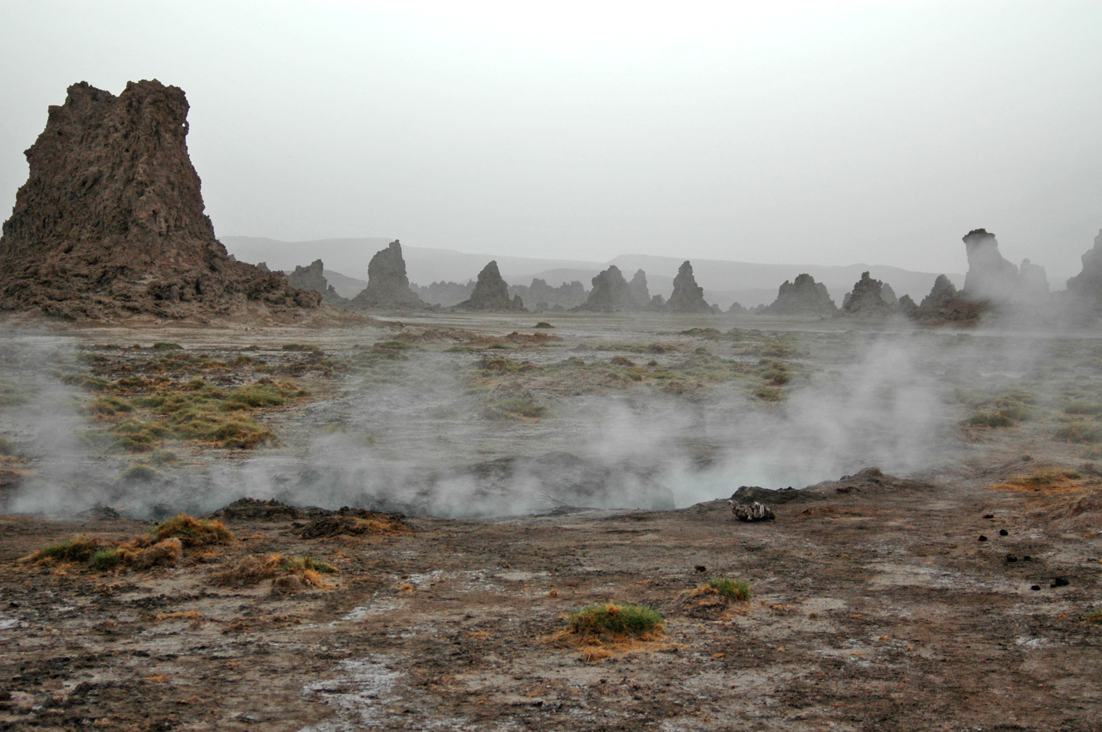 Sulphuric chimneys at lac abbe (Lake Abbe), Ethiopia/Djibouti